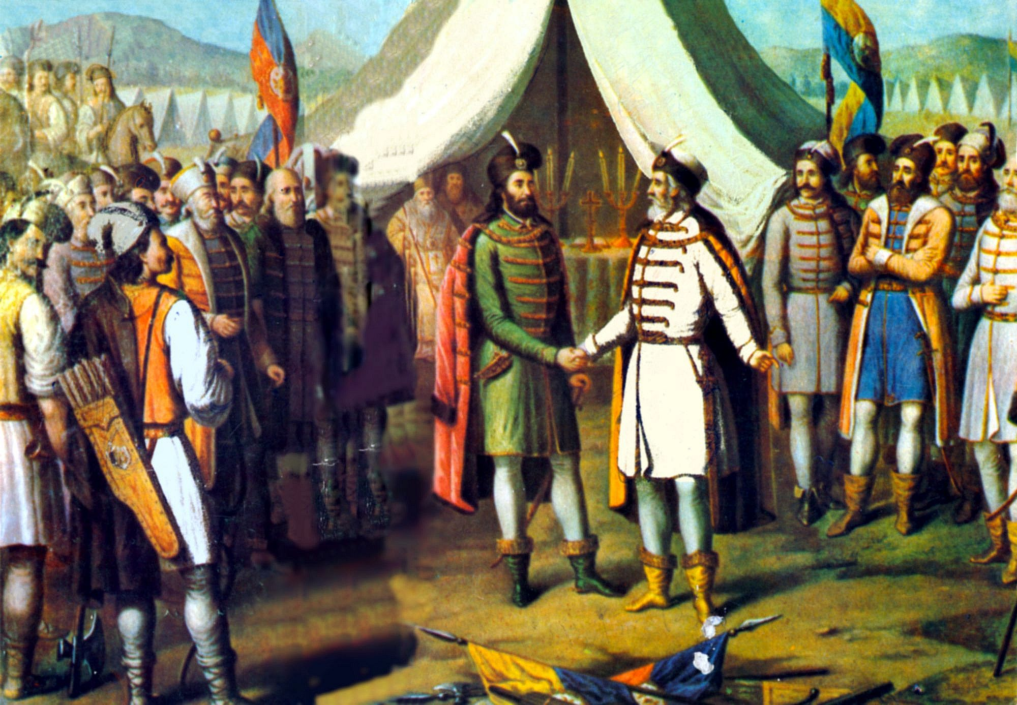 The union between Moldavians and Wallachians (1506). In the middle: prince Bogdan cel Chior of Moldavia and prince Radu cel Mare of Wallachia. The two flags are supposed to be the national ones: Blue and red for Moldavia Blue and yellow for Wallachia This is historically inacurate, as the two colors were established only in the XIXth century. However, this painting symbolises two things: the union and brotherhood between Moldavian Romanians and Wallachian Romanians and also an explenation for the colours of the Romanian flag (the legend of merging the flags of Wallachia and Moldavia).